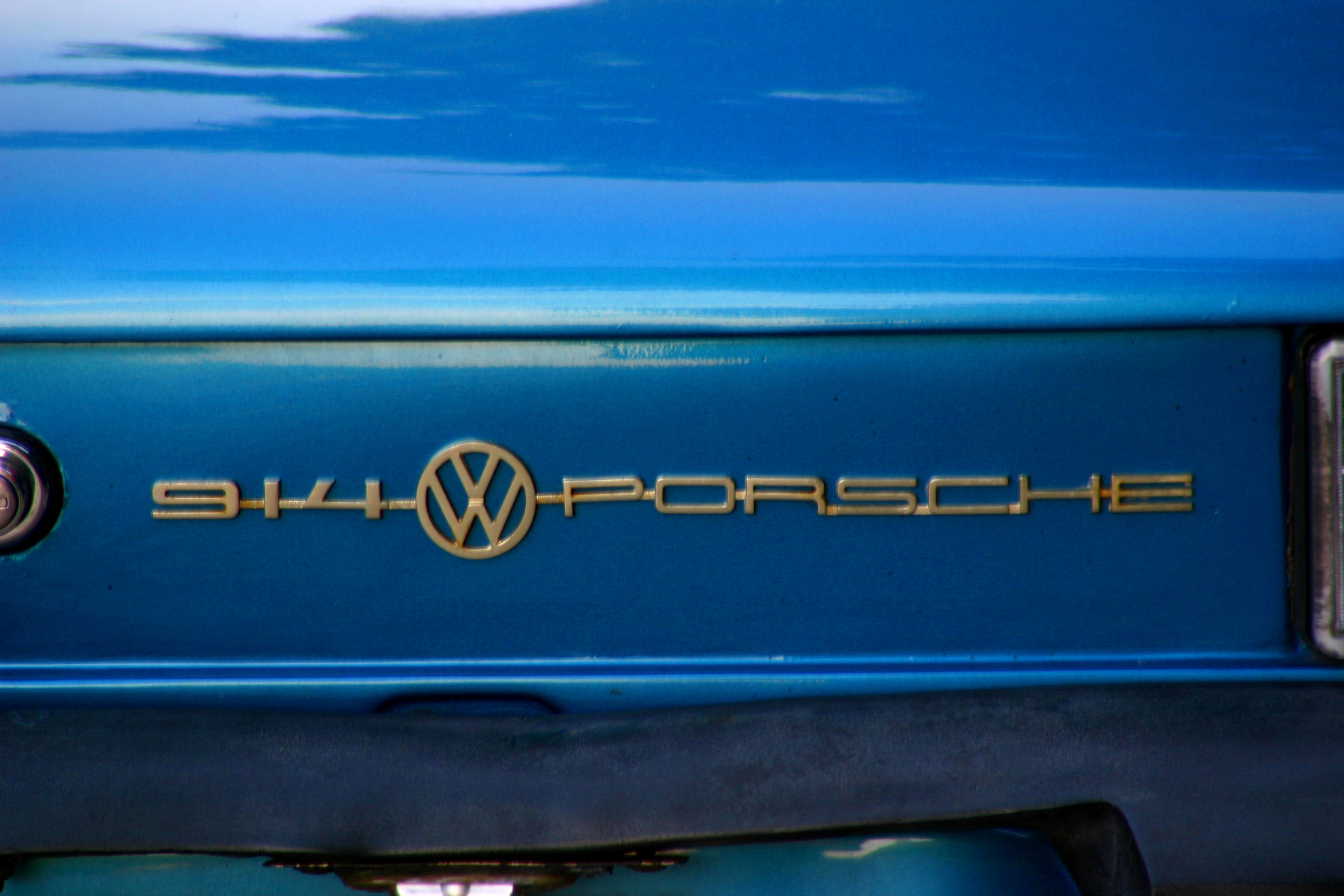 Type-designation at the rear of a Porsche 914 with Volkswagen-Emblem